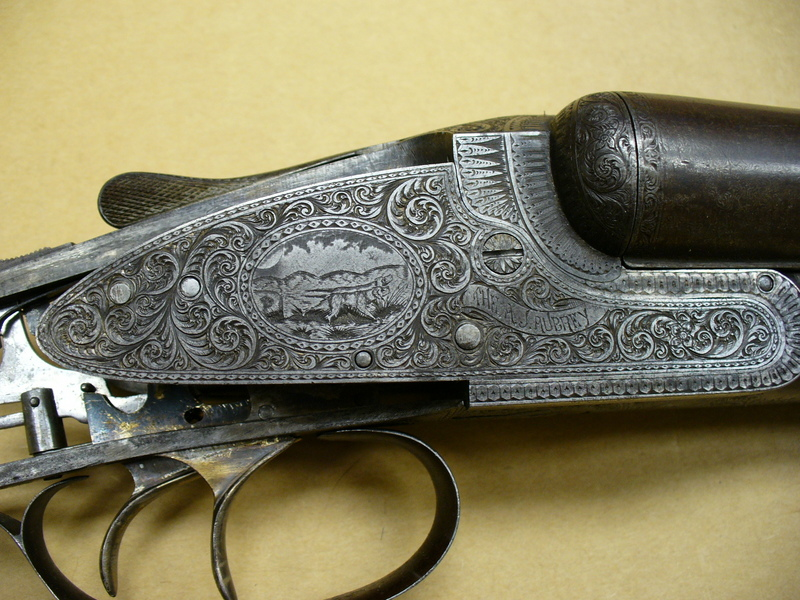 AJ Aubrey shotgun #1,000, the 1st made at the Sears Meriden Firearms factory.